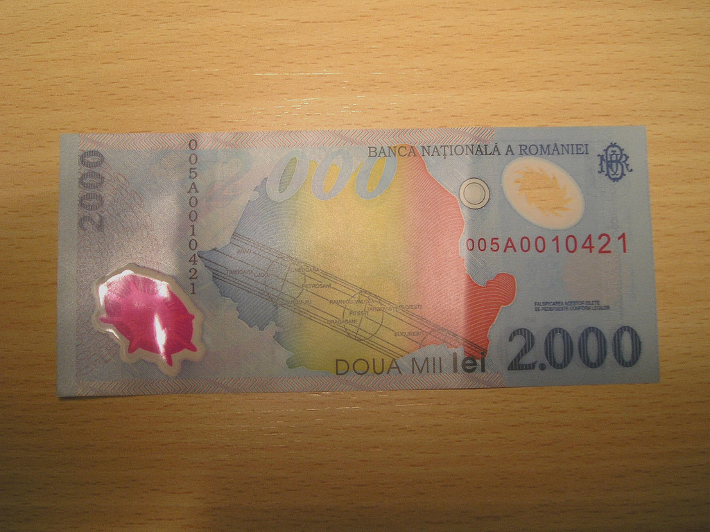 Romania special money made to celebrate the 1999 eclipse